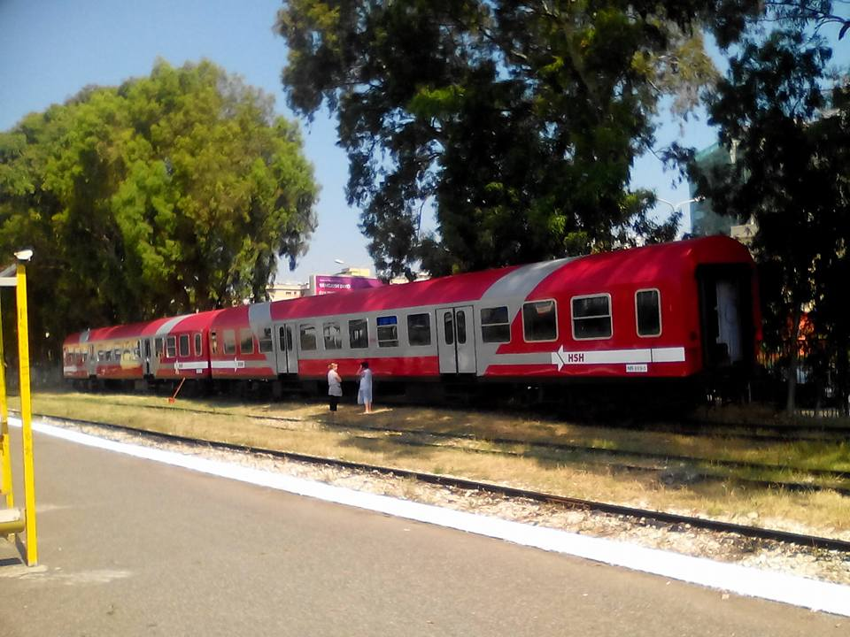 The reconstructed wagons of the Albanian railway system in Durres.